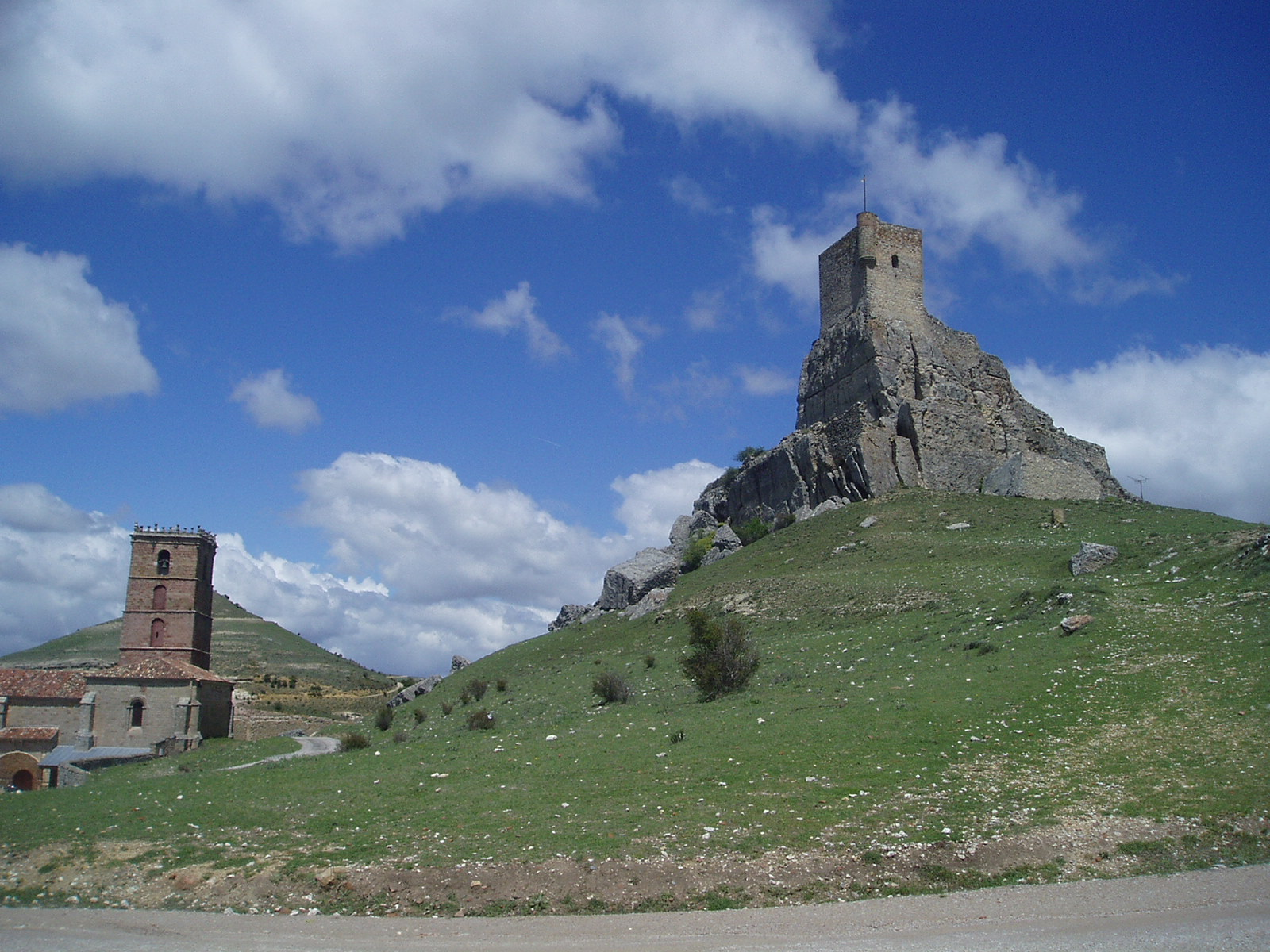 Atienza's castle, and to its feet, Church of Santa Maria del Rey, in Atienza, Guadalajara.